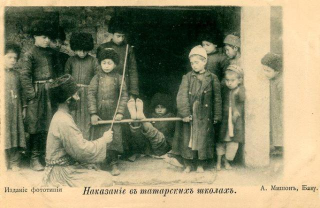 Falaka (foot whipping) punishment in Tatar (later known as Azerbaijani) school in Baku.